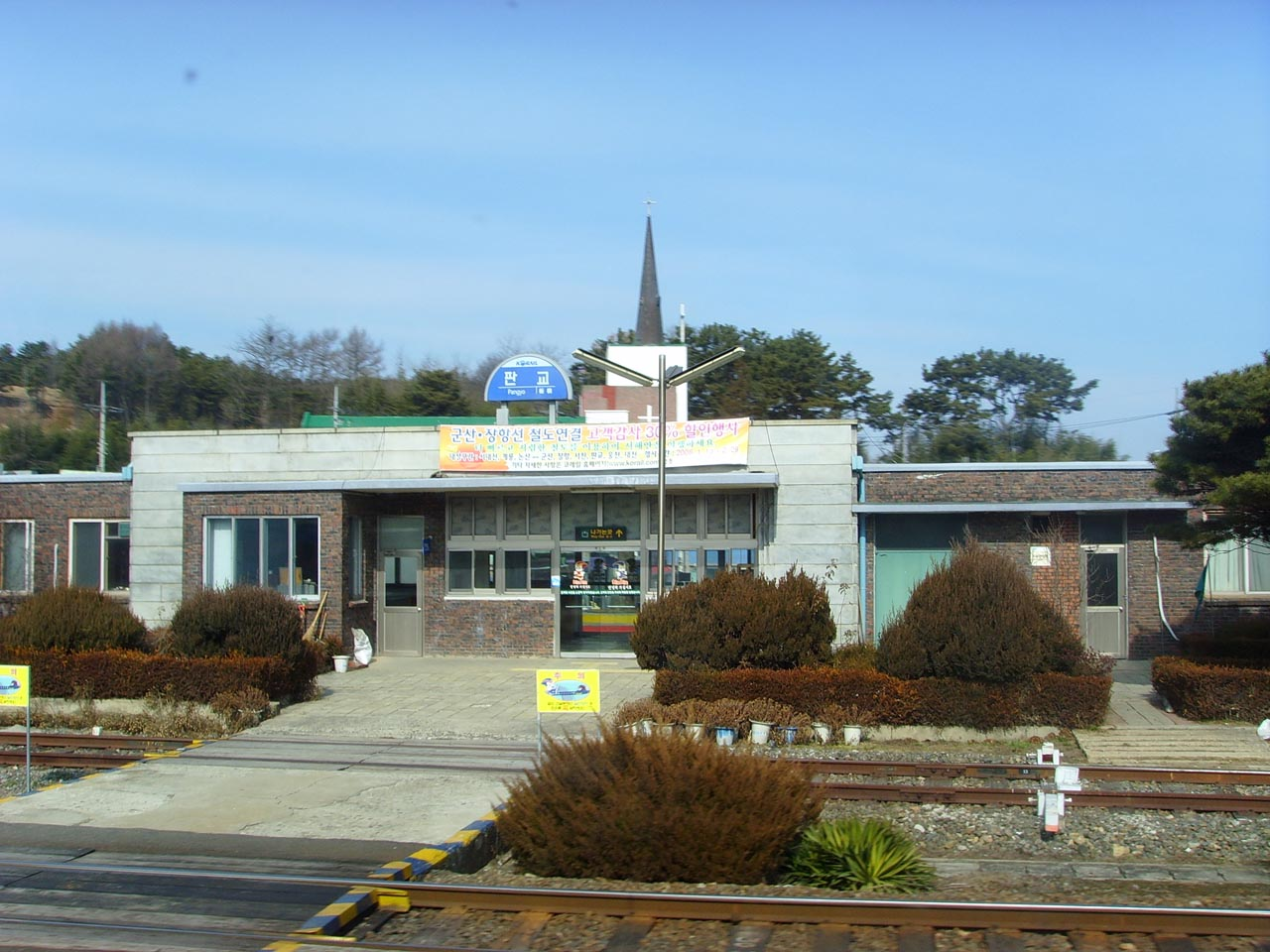 Janghang Line Pangyo Station (Hyeonam-ri, Pangyo-myeon, Seocheon-gun, Chungcheongnam-do, South Korea)